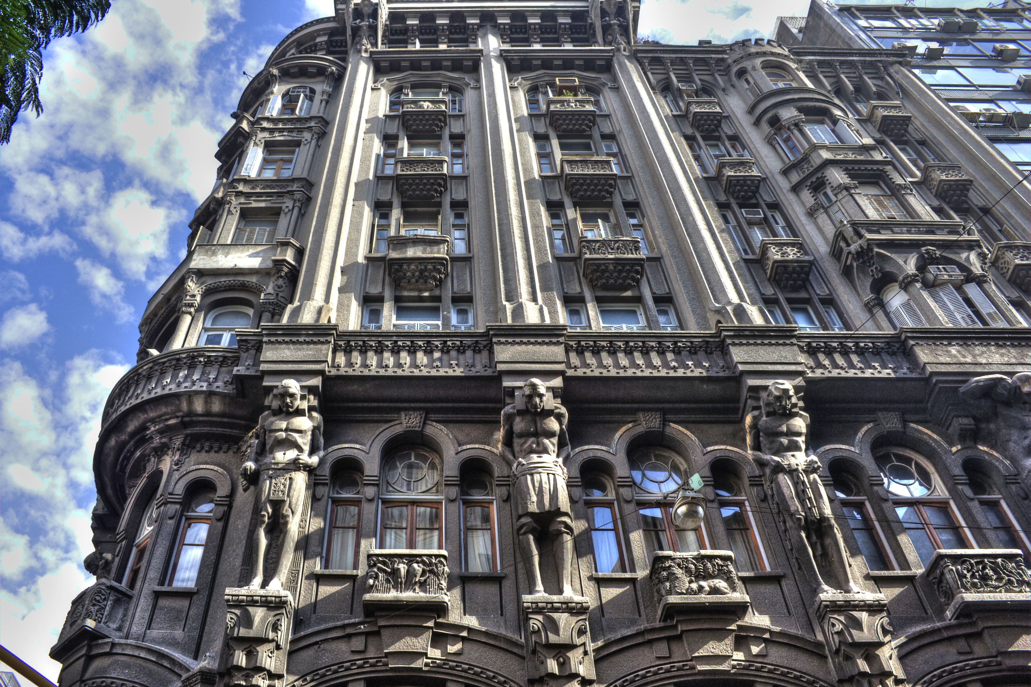 Atlantes on the exterior of the Otto Wulf Building in Buenos Aires, Argentina